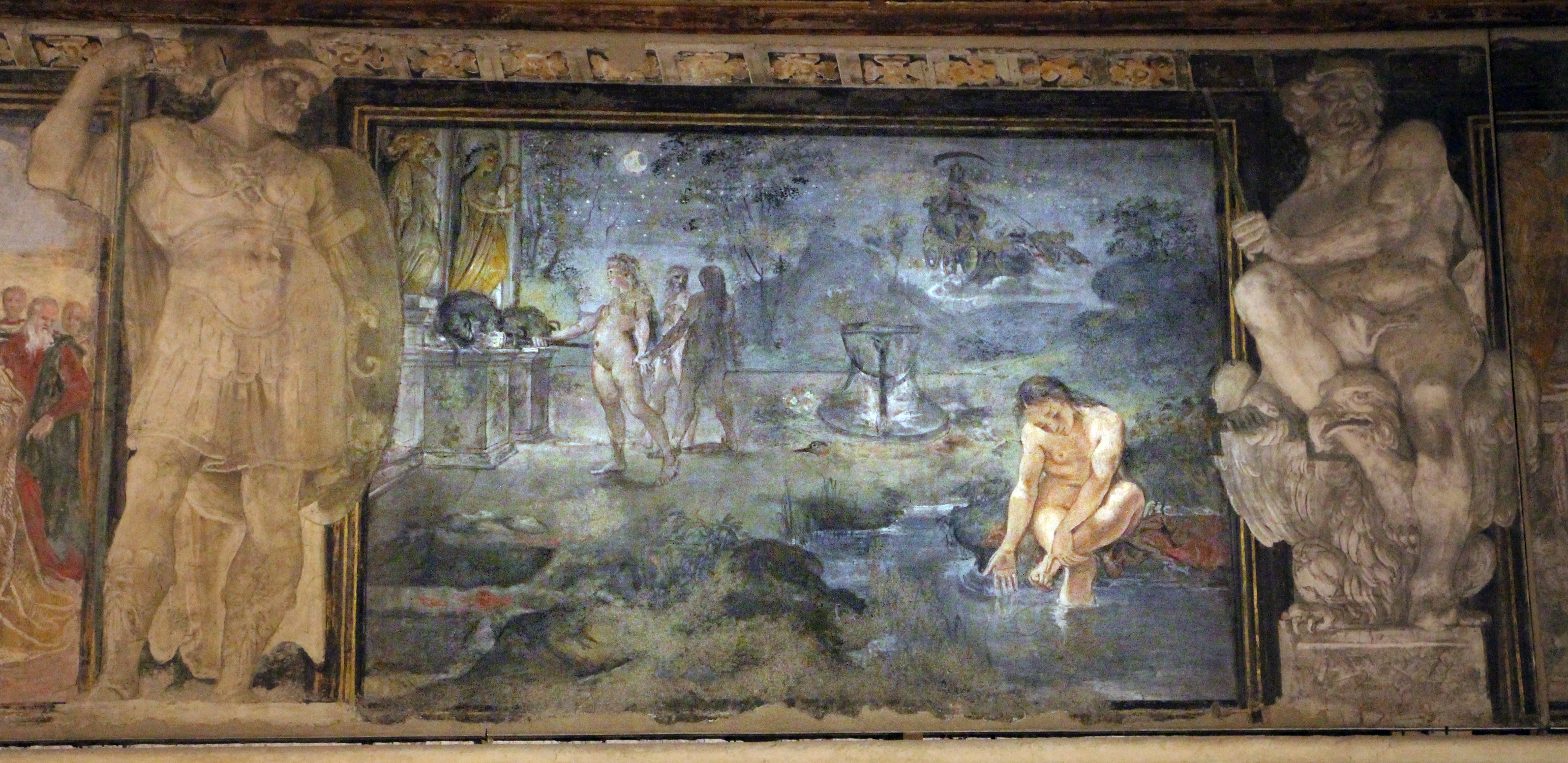 Frieze of Jason and Medea